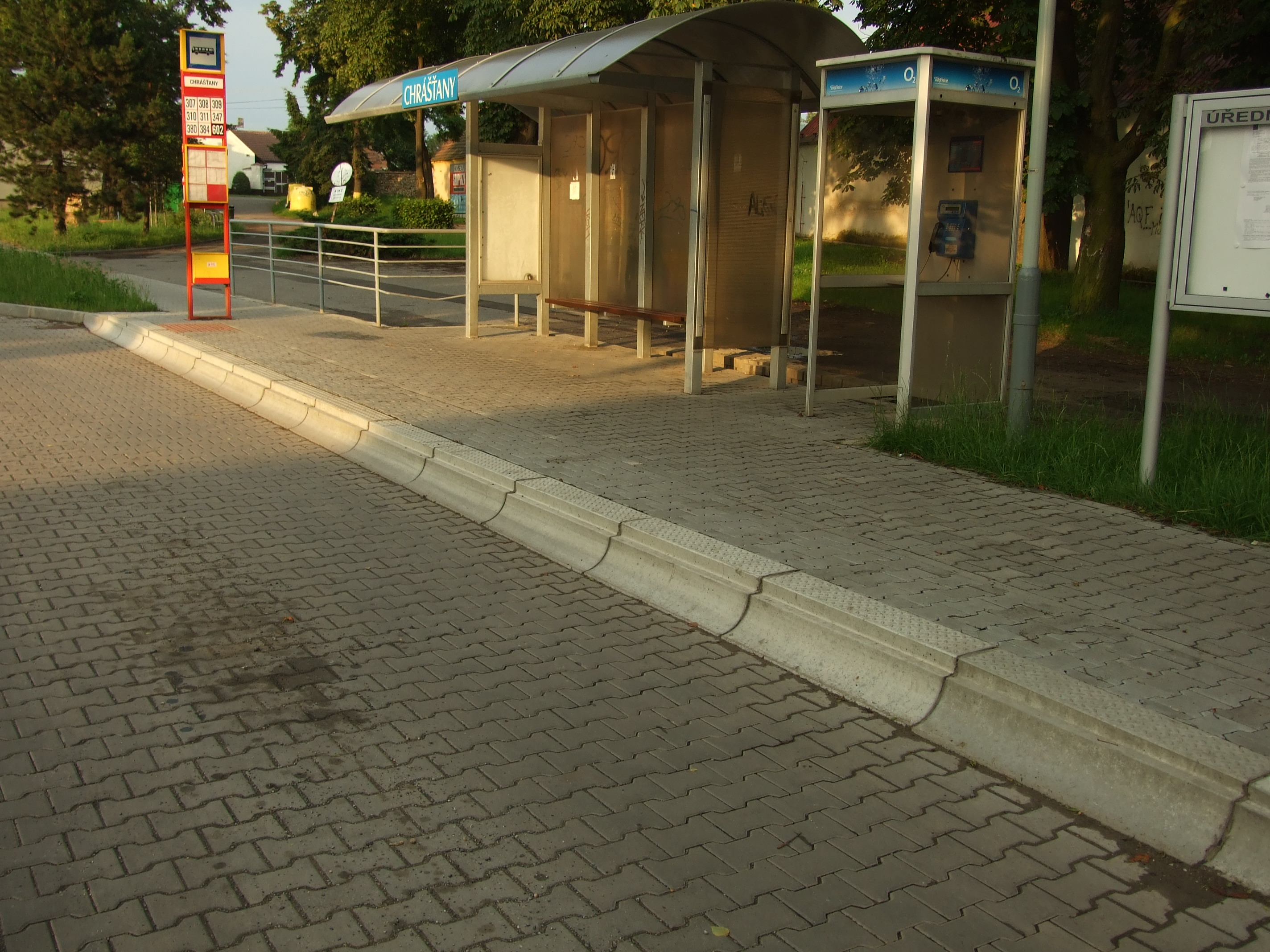 Town of Chrášťany near Prague and Kladno in Central Bohemian region, CZhelp